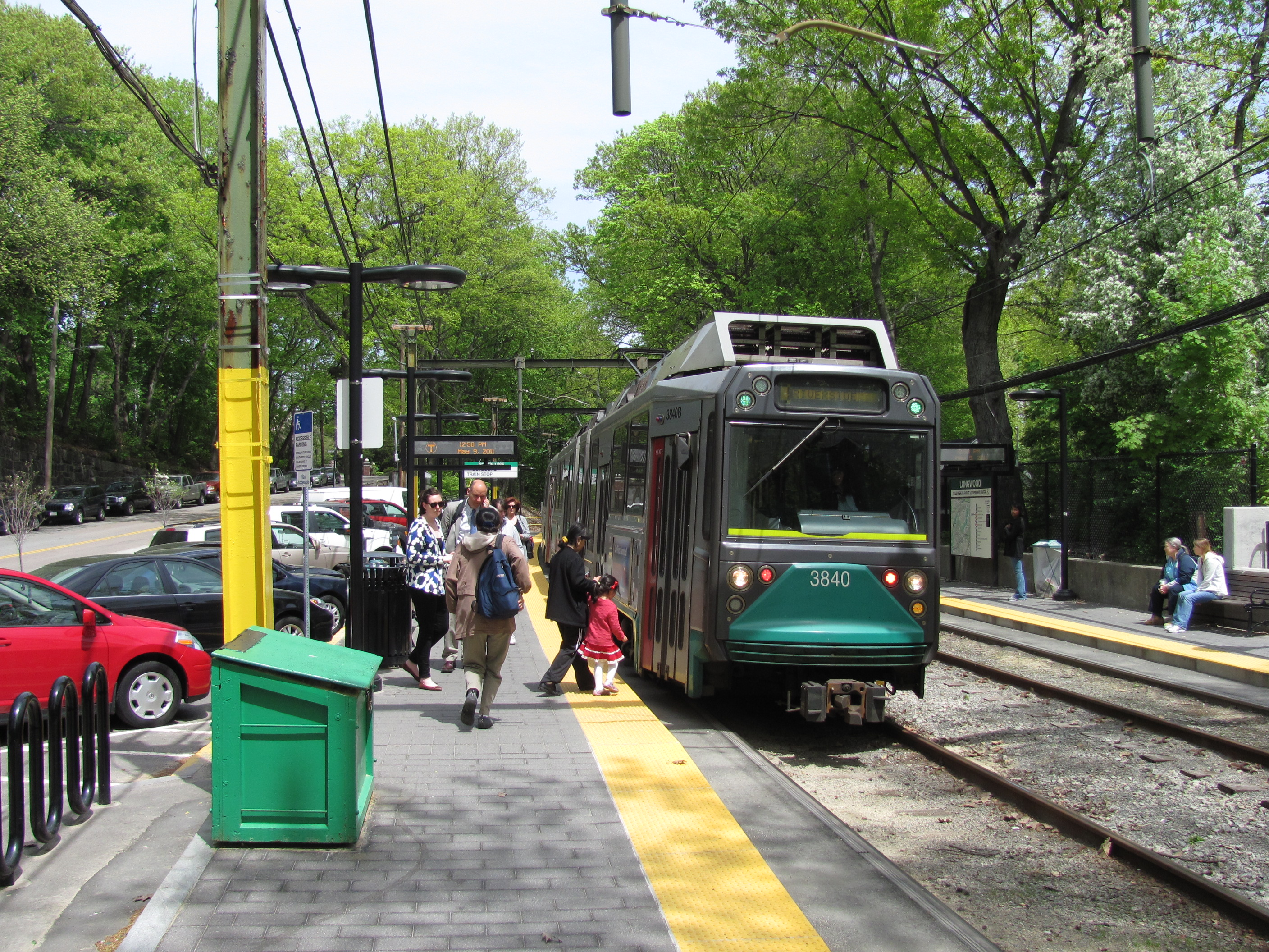 Longwood MBTA station on the Green Line D Branch in Brookline Massachusetts